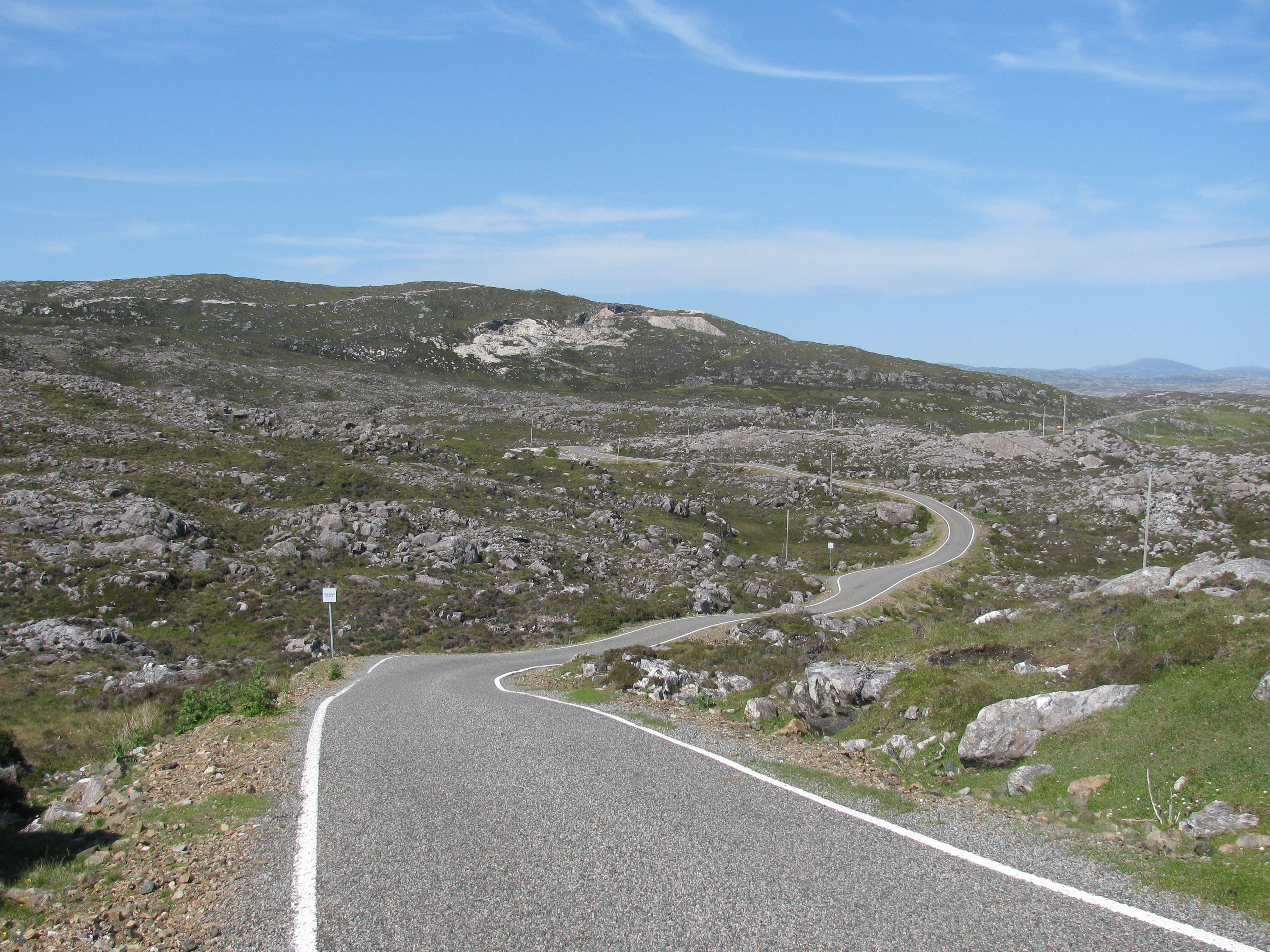 Section of the Golden Road on Harris, Scotland, between Rodel and Tarbert